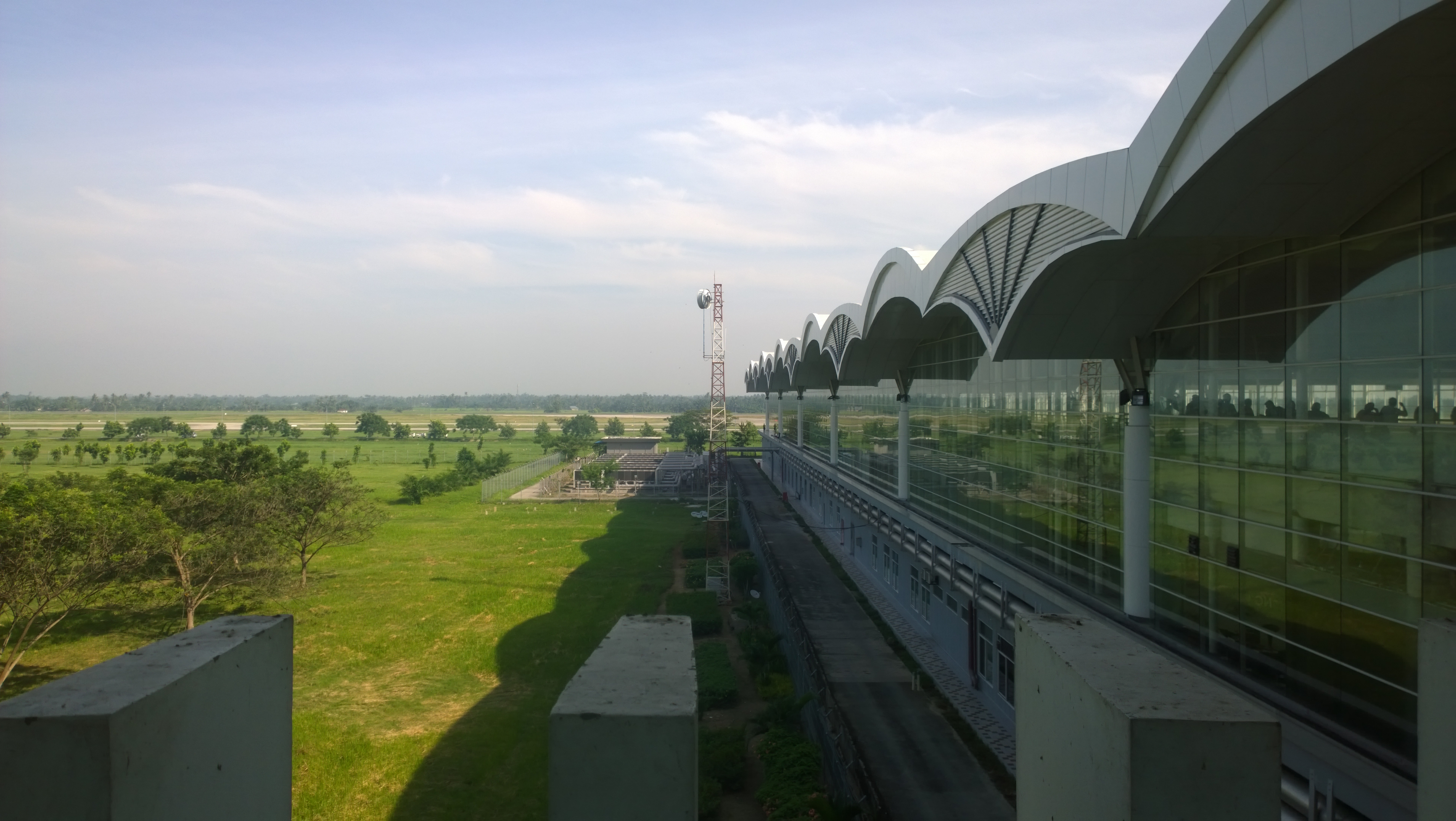 Exterior of Kuala Namu International Airport.